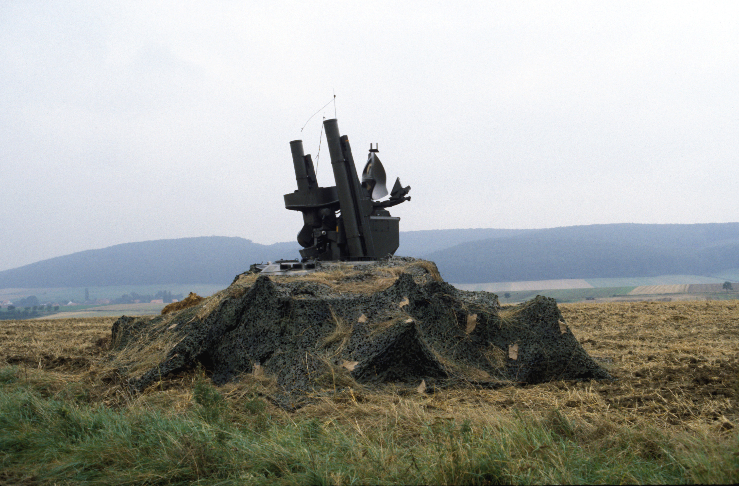 Camouflaged netting covers a Roland II surface-to-air-missile system during Exercise REFORGER '85.